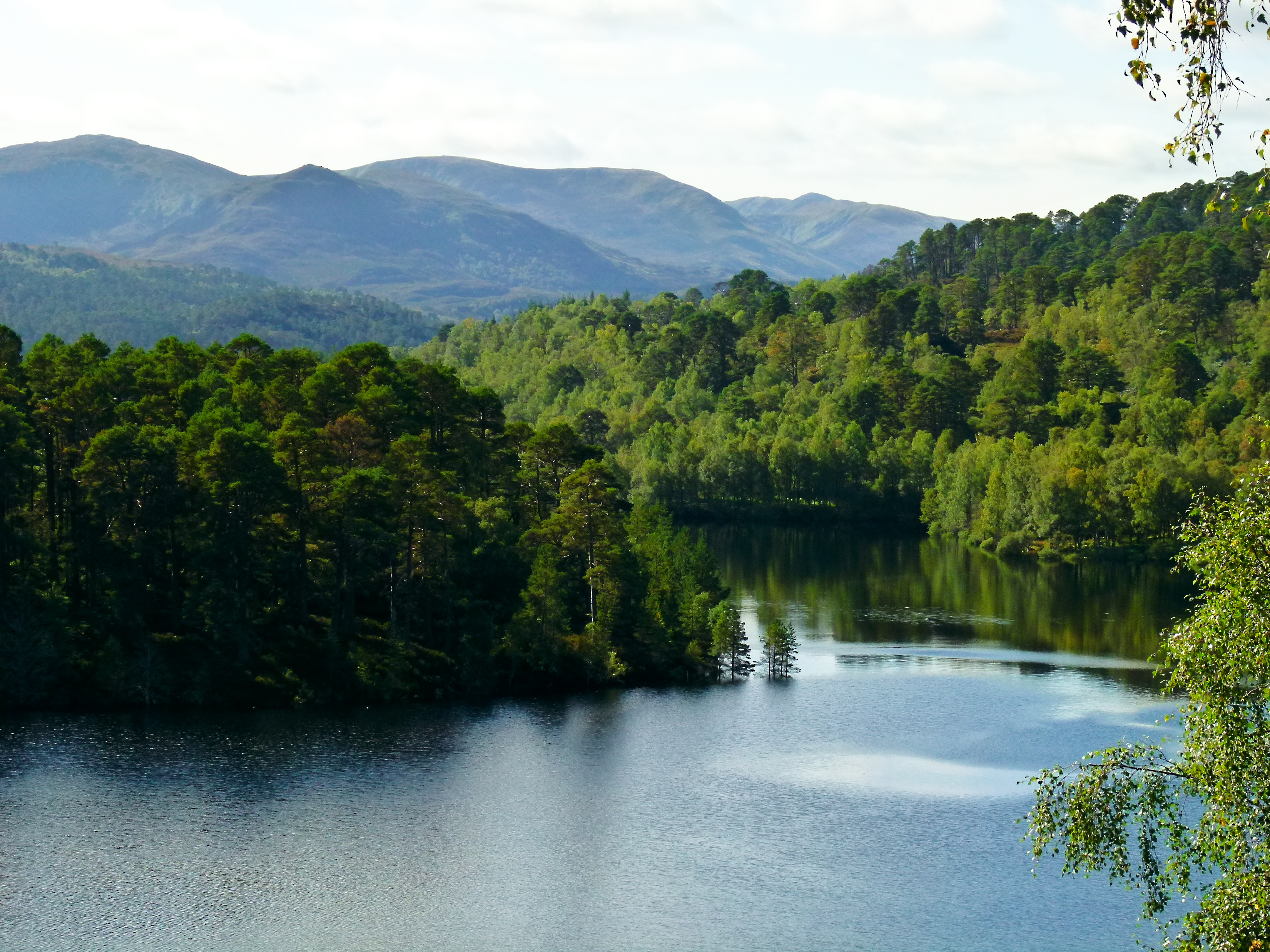 Islands